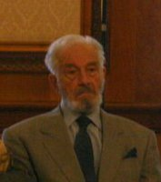 Sergiu Nicolaescu during a senate hearing in 2009.